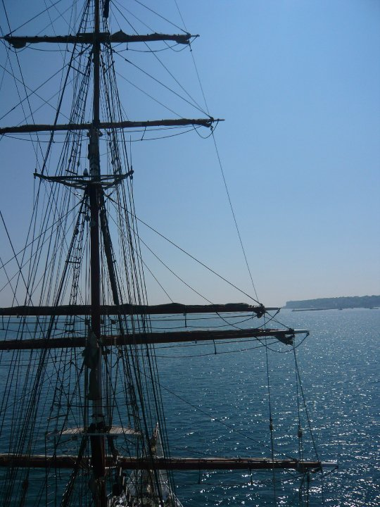 A picture of the foremast sails and yards on the Stavros S Niarchos ship.